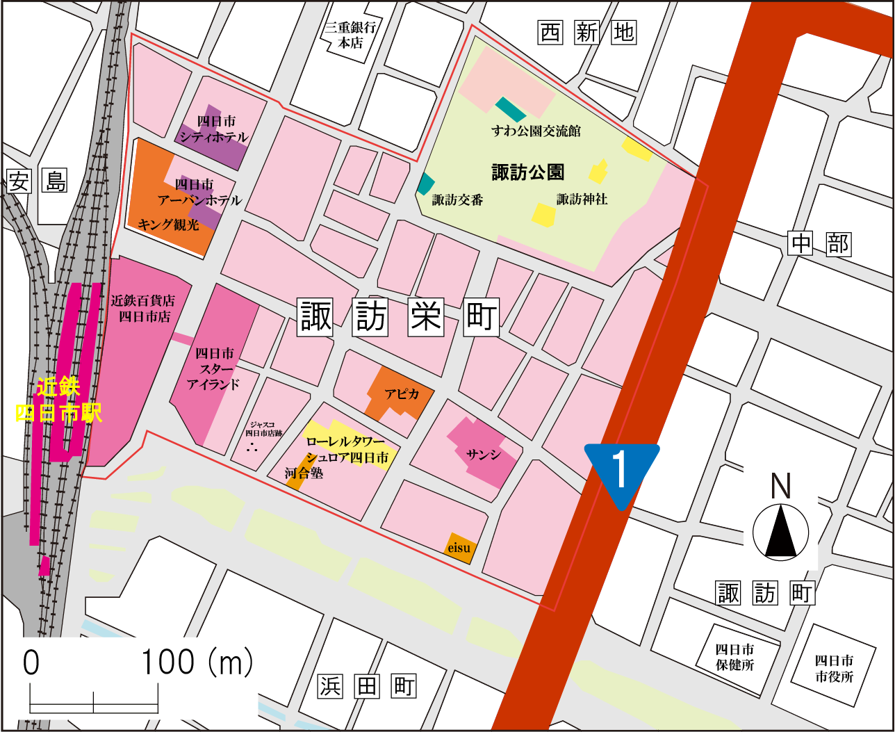 This is a map of Suwasakae-machi, Yokkaichi city, Mie prefecture, Japan.